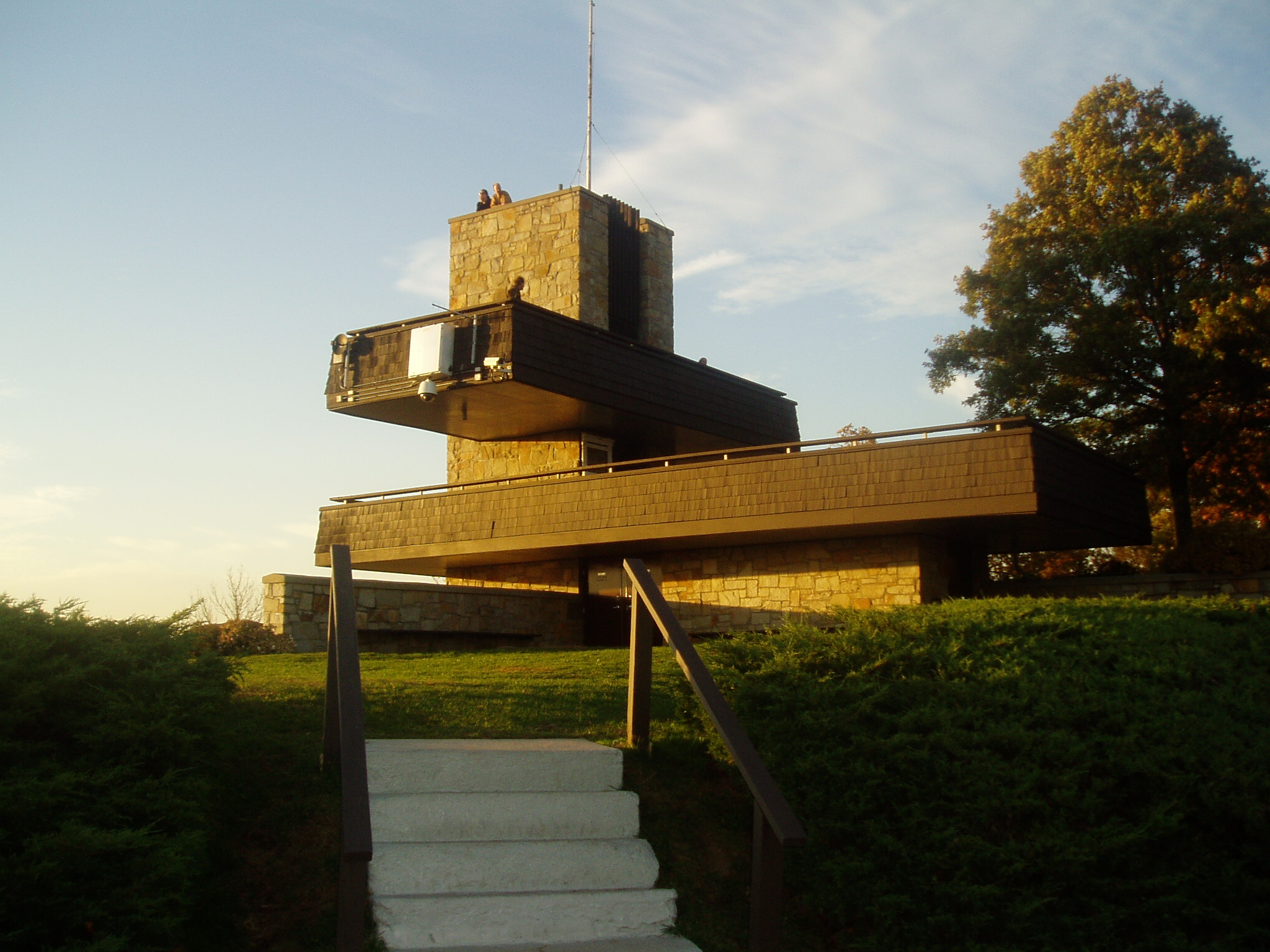 Photo taken myself